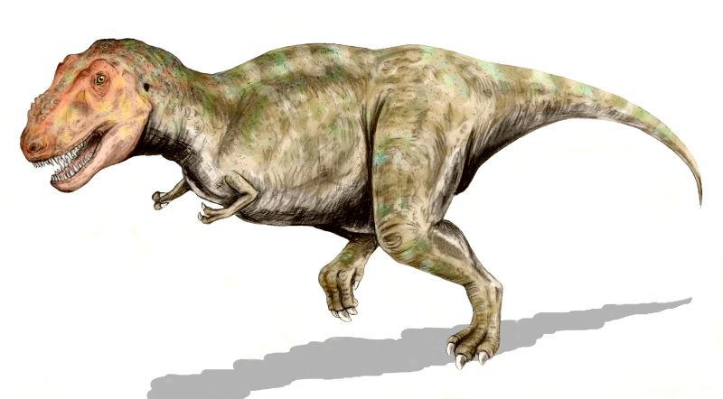 Tyrannosaurus, a theropod from the Late Cretaceous of North America, pencil drawing